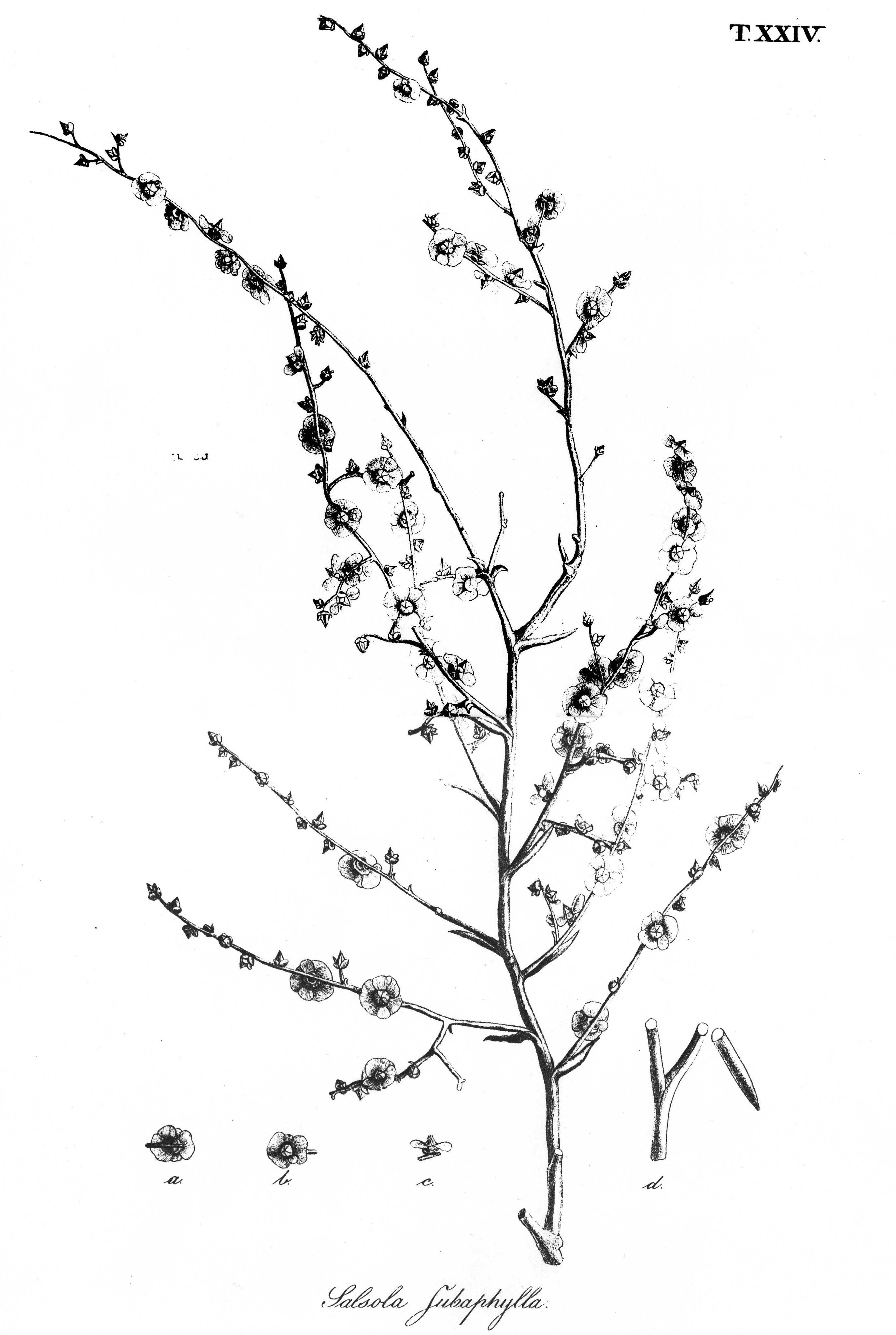 Salsola subaphylla C.A.Mey. = Halothamnus subaphyllus (C.A.Mey.) Botsch., from Meyer, C.A.v. 1833. In: Eichwald, K.E.I: Plantarum novarum vel minus cognitarum, quas in itinere Caspio-Caucasico observavit Dr Eduardus Eichwald 2: 34, tab.24.